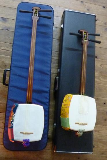 A picture showing the comparison of two Japanese three-stringed lutes, particularly that of a Heike shamisen, and a medium-sized shamisen.